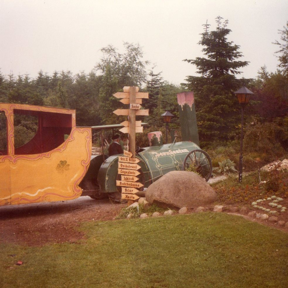 The original tourist train in Jesperhus Blomsterpark called "Jernhesten" or "The iron horse".